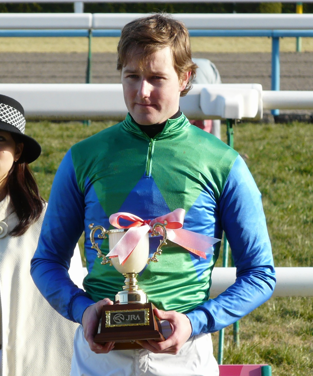 Thomas-Queally20120219